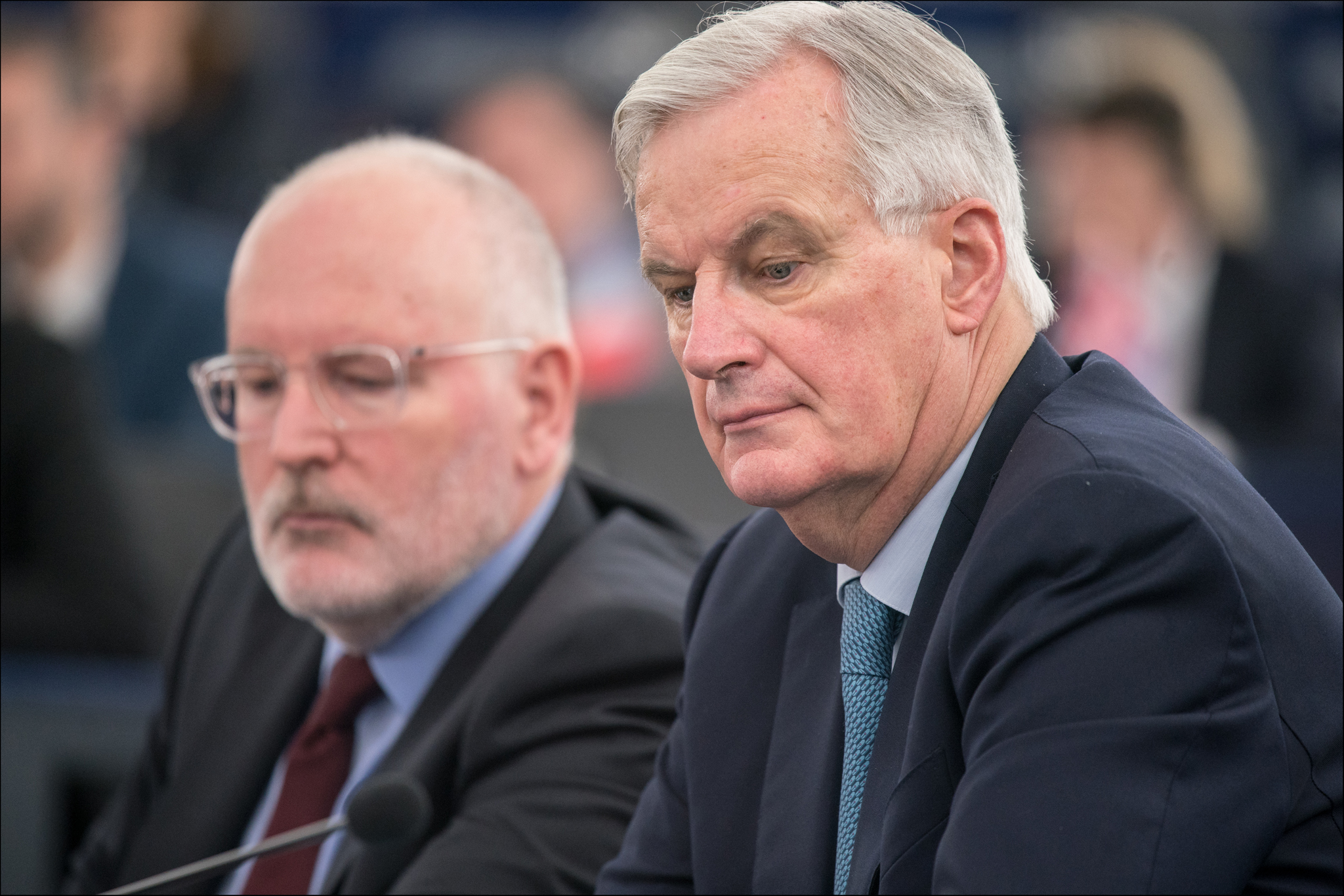 Following the UK parliament's rejection of the Brexit deal in a vote last evening, members of the European Parliament have underlined that the EU will remain united and that citizens’ rights are Europe's priority. Speaking in a debate in Parliament today, Commission Vice-President Frans Timmermans said commitments on the peace process and the border in Ireland or on citizens’ rights cannot be watered down. Parliament's lead member on Brexit @guyverhofstadt called on UK politicians to build a positive majority to break the Brexit deadlock. READ MORE ►► This photo is free to use under Creative Commons license CC-BY-4.0 and must be credited: "CC-BY-4.0: © European Union 20XY – Source: EP". No model release form if applicable. For bigger HR files please contact: webcom-flickr(AT)